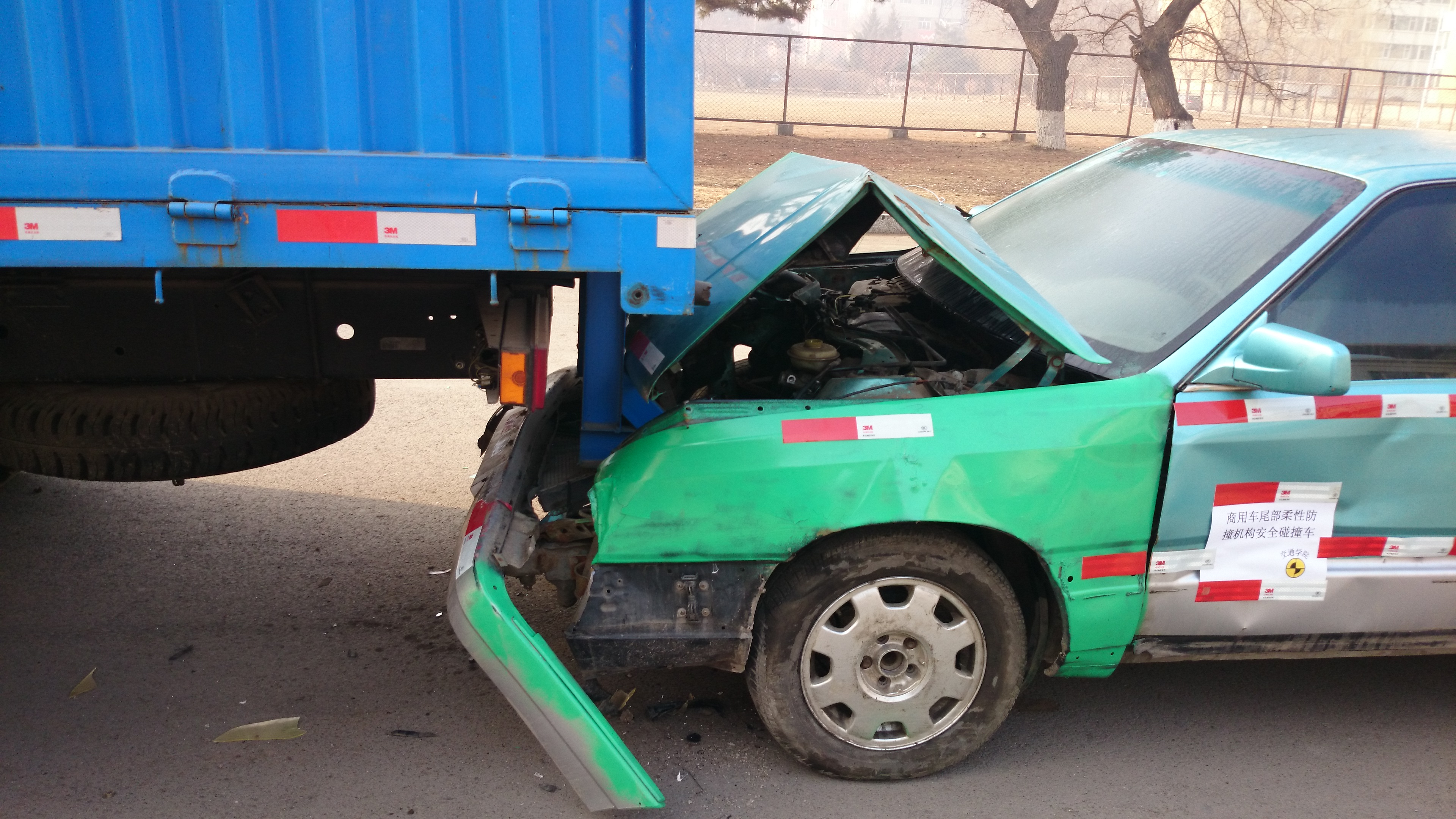 A crash test performed by College of Traffic, Jilin University, in order to evaluate the safety performance of a underride guard. An FAW Hongqi CA7180A4E passenger car run into the back of an FAW Jiefang CA1169PK2L2EA80 truck full-width at a low speed (about 30~40km/h, the accurate speed is unknown).